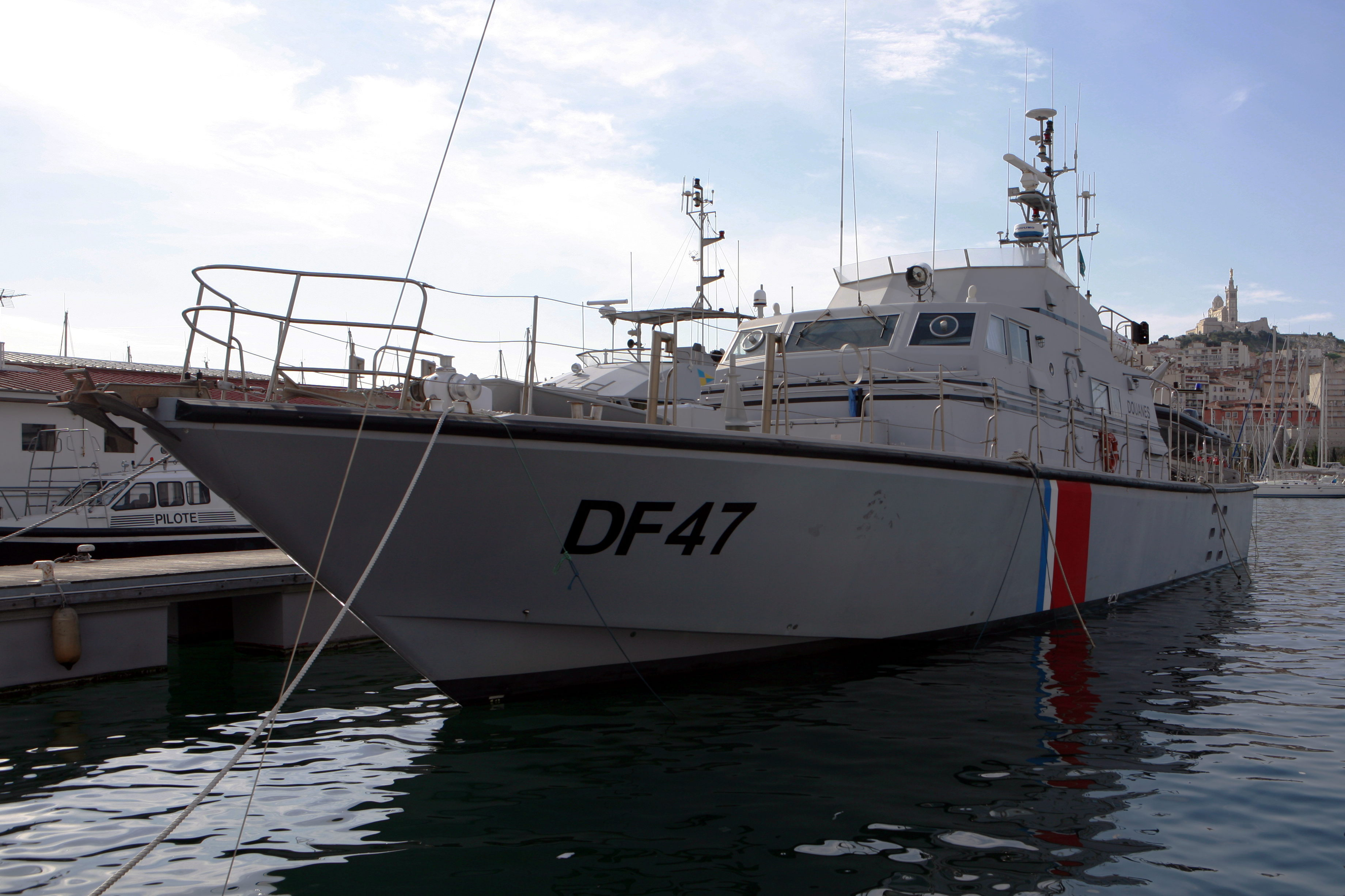 Haize Hegoa type patrol boat Lissero (DF47), of the French customs services, photographed in the old harbour of Marseille.